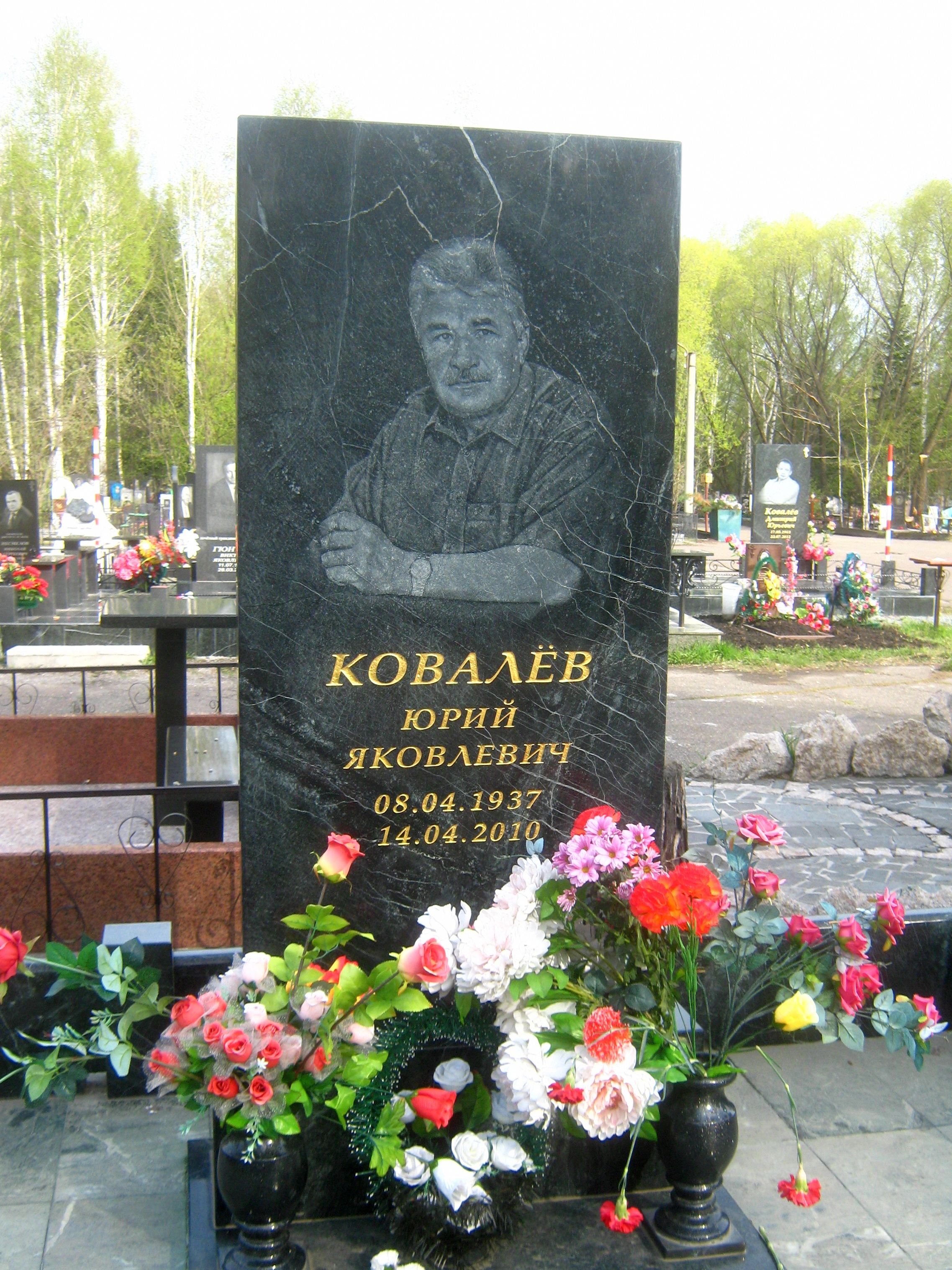 Ю. Я. Ковалёв на Бактине